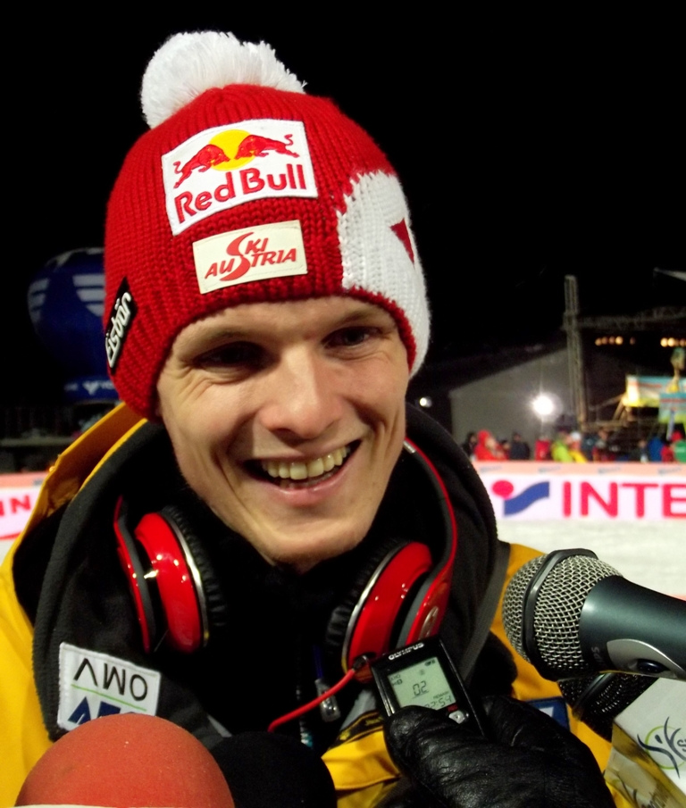 Thomas Morgenstern